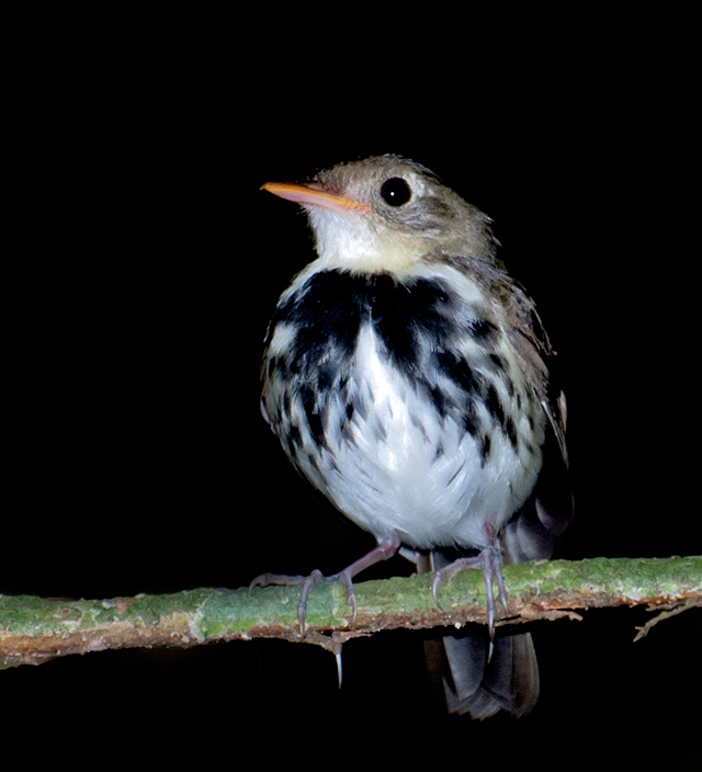 A Southern Antpipit in Extrema, Minas Gerais, Brazil.